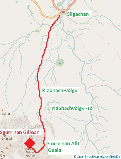 Trail leading to the Sgurr nan Gillean.